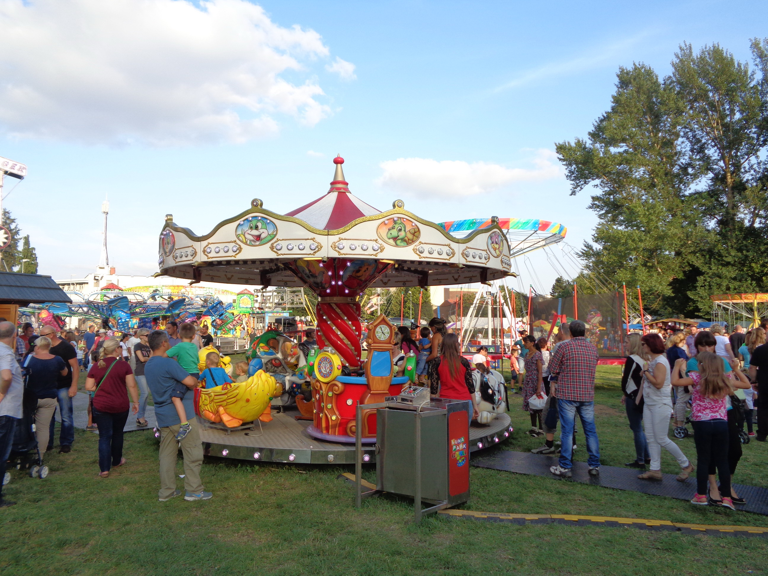 Porcijunkulovo, Catholic feast of Our Lady of the Angels and local festival in Čakovec, Croatia (2015) - carouselsHrvatski: Porcijunkulovo, katolički blagdan Gospe od Anđela i lokalno proščenje u Čakovcu, Hrvatska - ringišpili (vrtuljci)